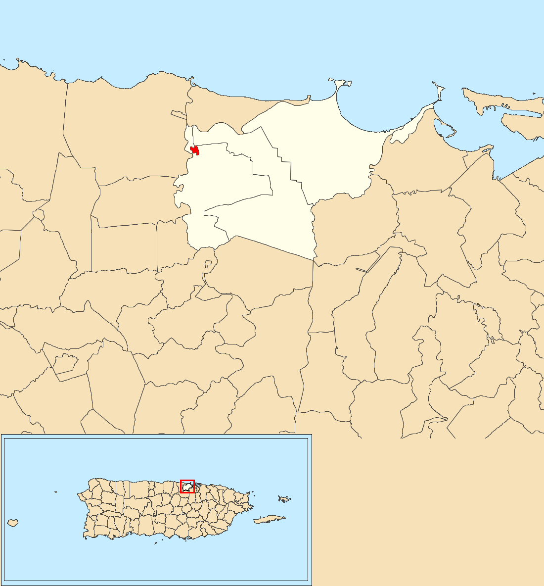 Toa Baja barrio-pueblo, Toa Baja, Puerto Rico locator map